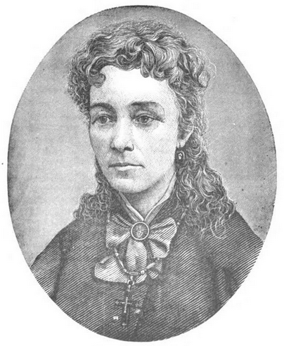 Florence Duval West, from an 1885 publication